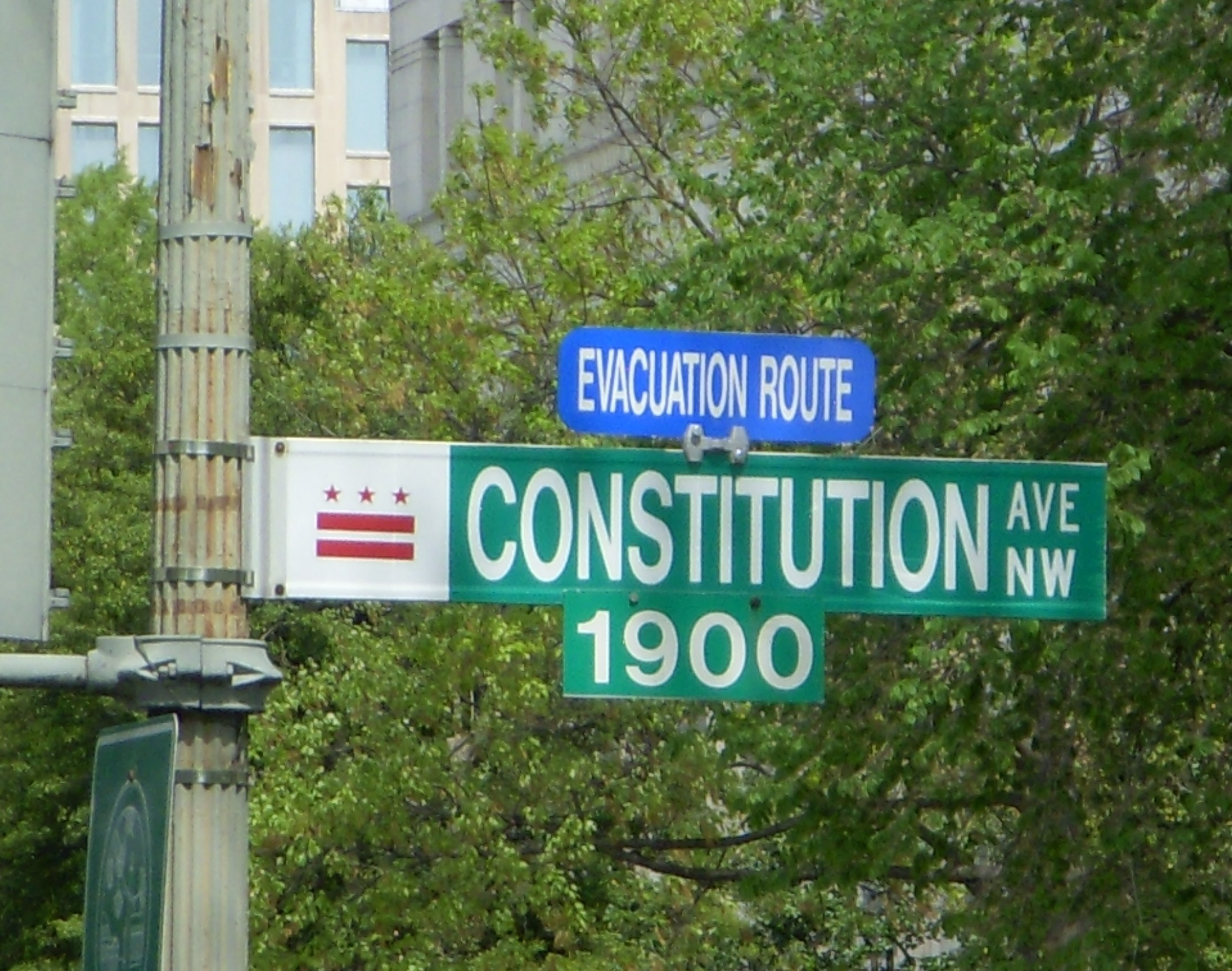 Constitution Avenue sign in Washington D.C.